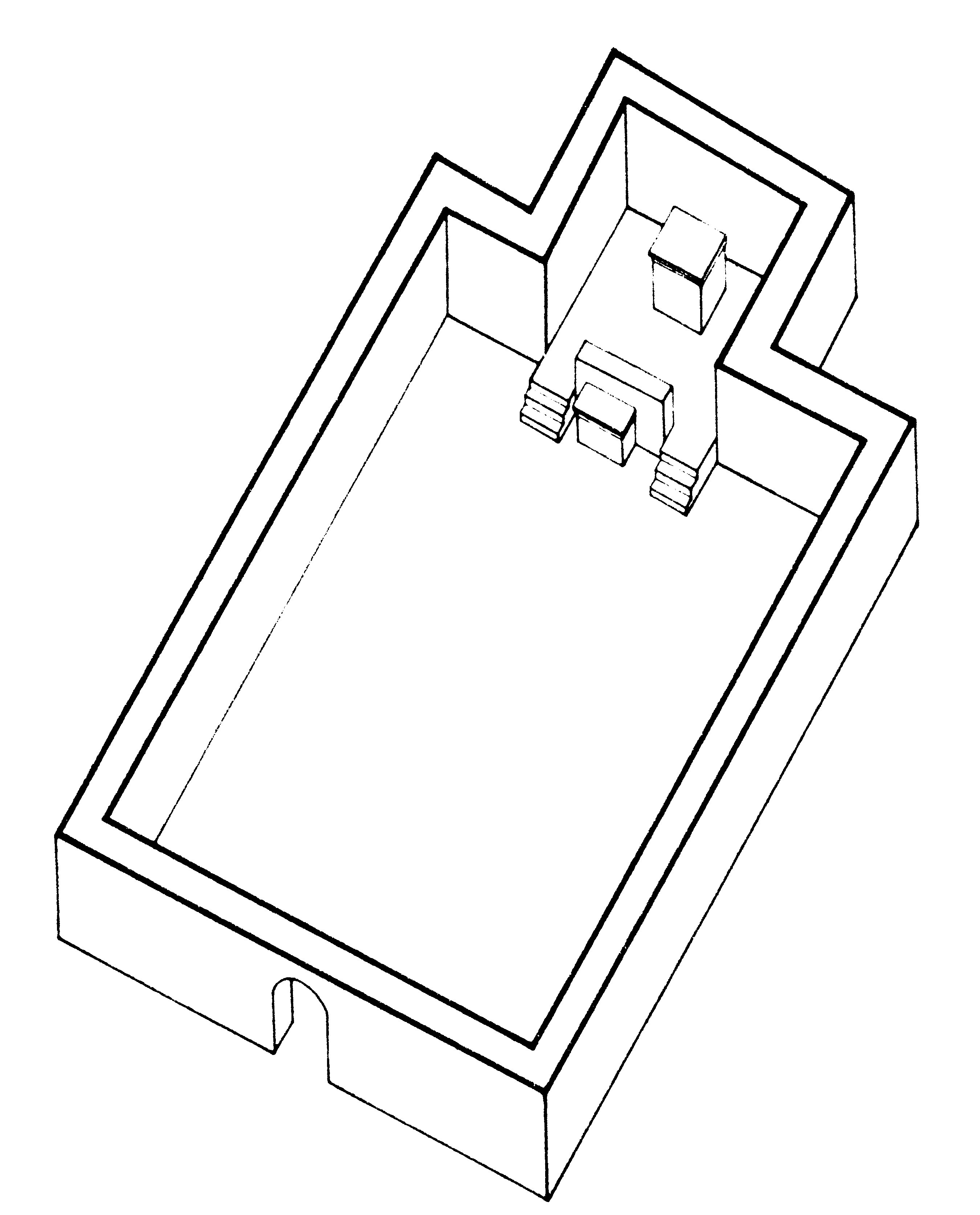 First stage of construction of the (now) Reformed Church in Betschwanden, Glarus, Switzerland from around 1300 -- sketch of the interior.